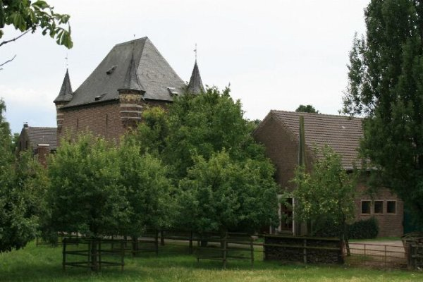 Cultural heritage monument No. 21 in Nettetal